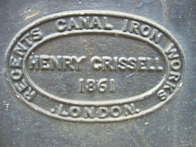 A very clean maker's mark on a Coal Tax post. It reads "Regents Canal Iron Works, London. Henry Grissell, 1861". This mark appears on the base of all the Type 2 posts. This particular specimen is Nail No. 4 on the south side of London Road, Romford outside No 403 at the point where the road becomes High Road, Chadwell Heath. A plate on the ground behind this post says "restored by London Borough of Havering, 1991" which explains its excellent condition.